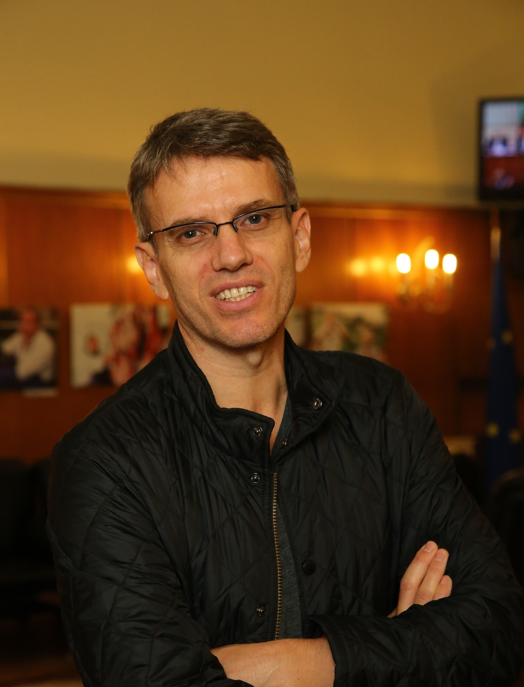 Bulgarian Internet pioneer Veni Markovski